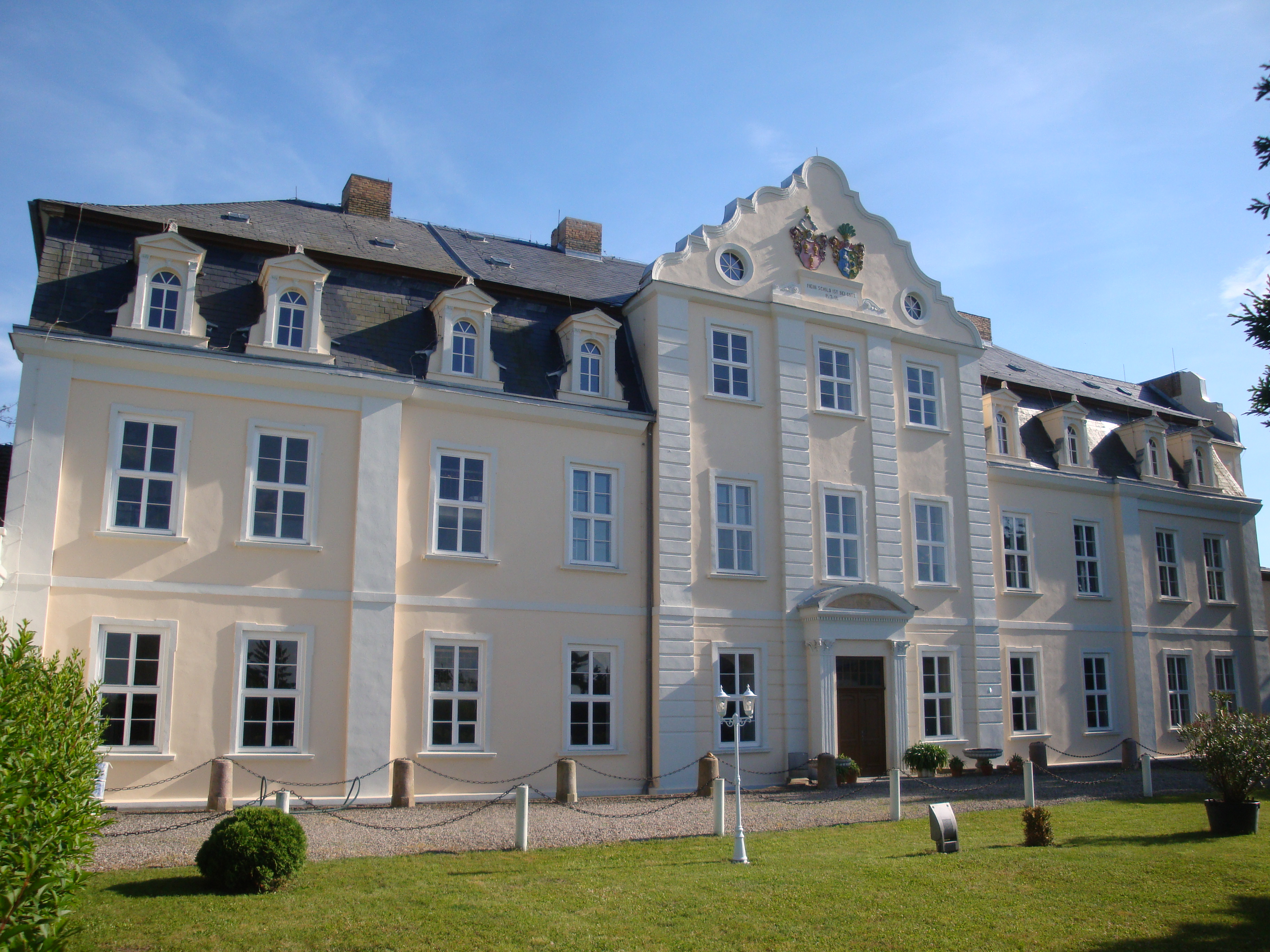 Facade North of Manor House Gross Miltzow